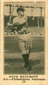 1916 M101-4 Dave Bancroft